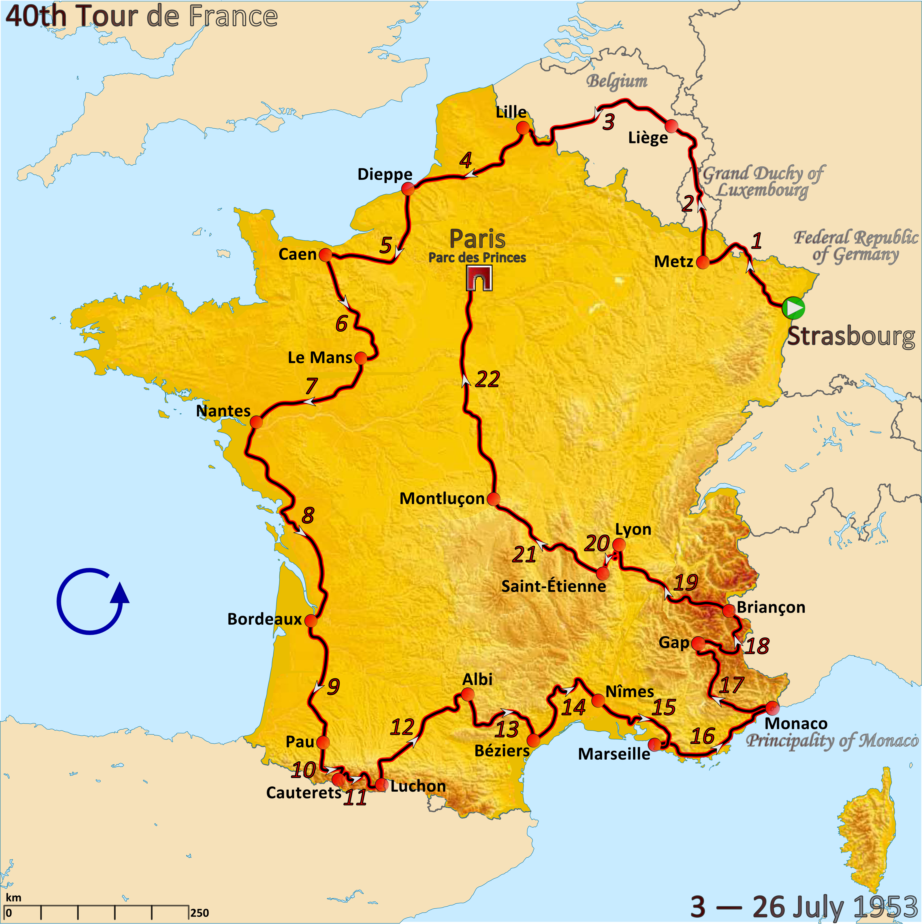 Route of the 1953 Tour de France created in Inkscape using accurate stage maps from touratlas.nl